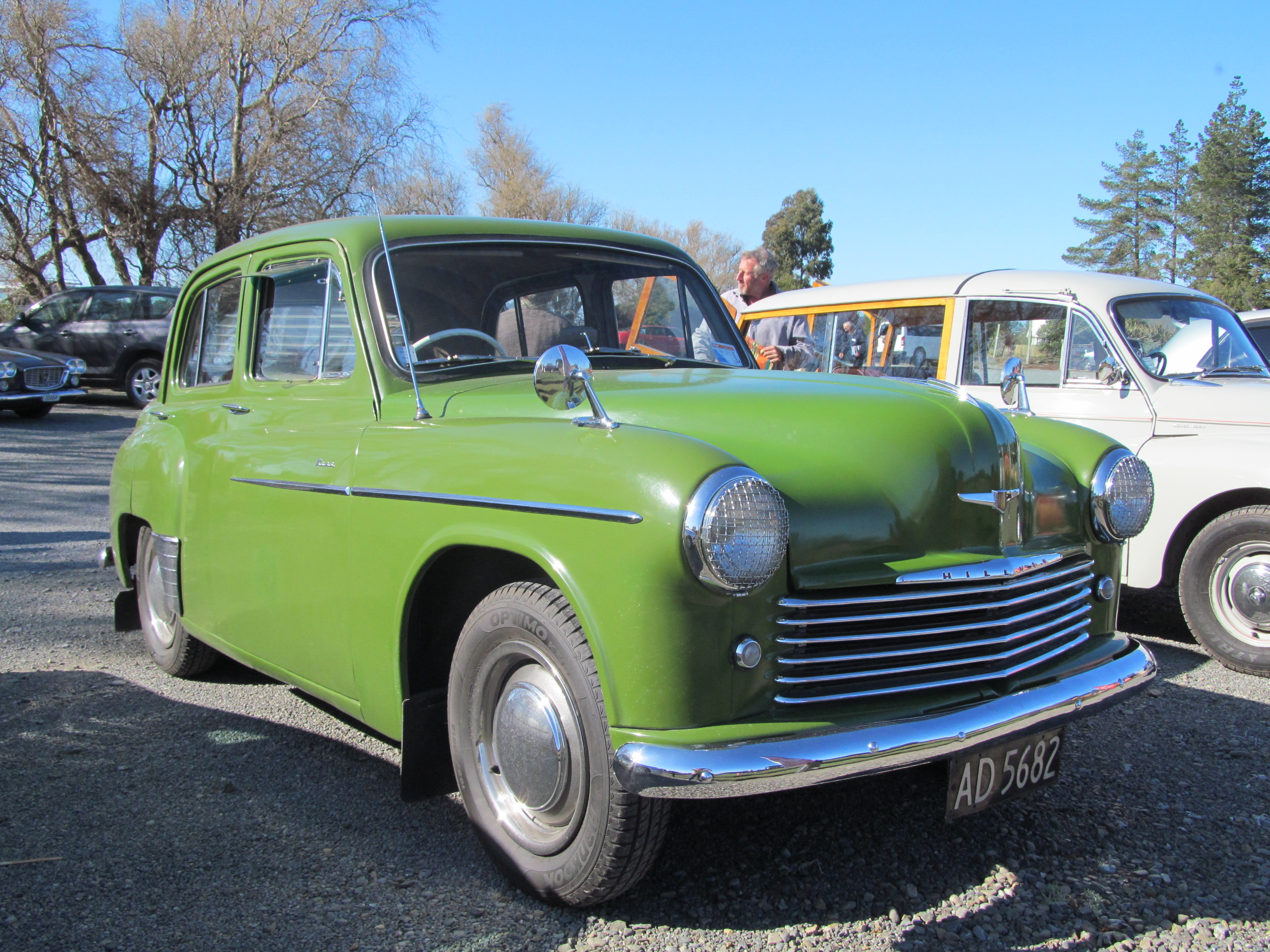 A very striking wee thing, and now 65 years old incredibly. Note the aftermarket 60s window monsoon shield! I suspect it has had a repaint at some stage but it wouldn't surprise me if this is its original colour.